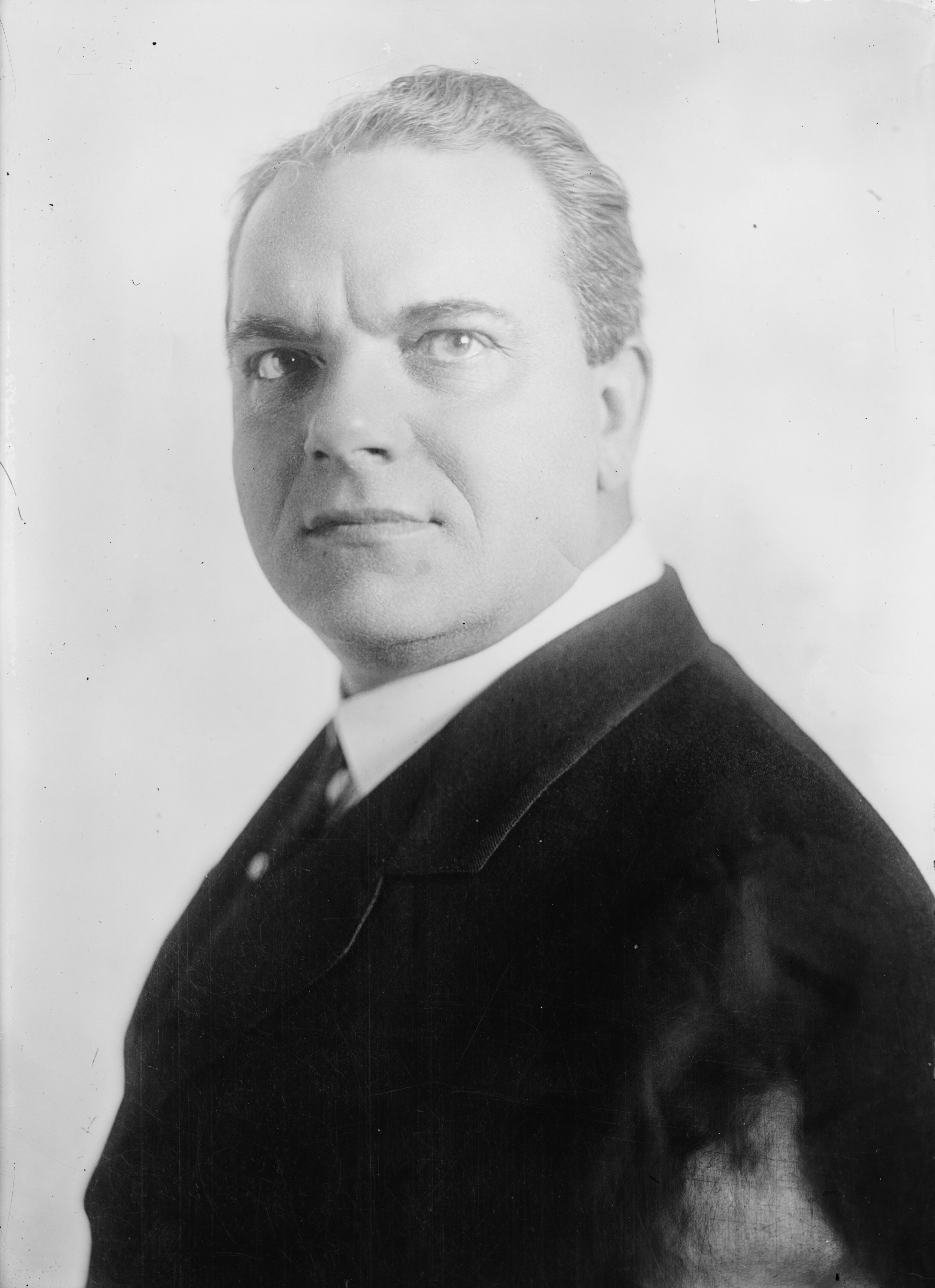 Marcel Journet (1867 – 1933), French bass